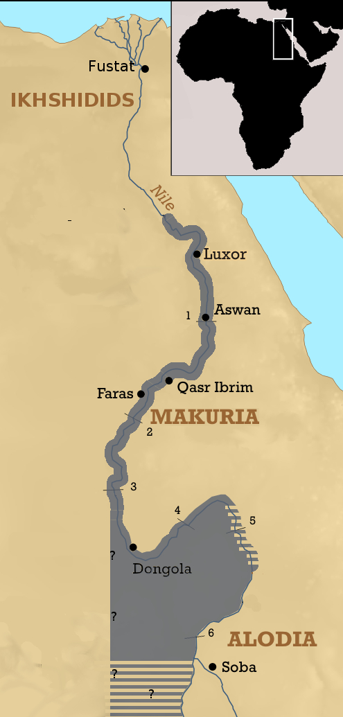 Under king Zacharias IV, the Nubians managed to advance as far north as Akhmim, benefiting from the weakness of the Ikhshidids. Upper Egpt, or at least parts of it, remained occupied for some time (interpretation derived from Roland Werner's "Das Christentum in Nubien"). It would also have extended far into the south, for Ibn Hawqal, who visited Nubia during the 950's, claims that the kings of Dongola asserted control over a region west of the White Nile.